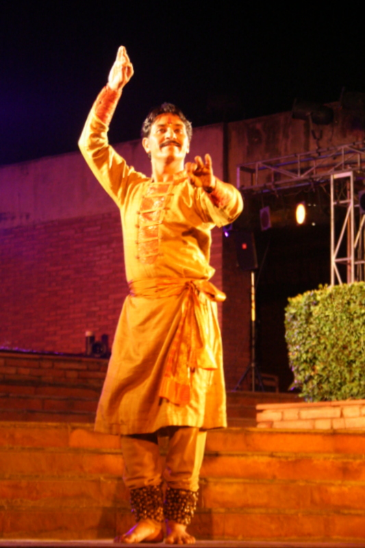 This photo was taken during dance perfprmance